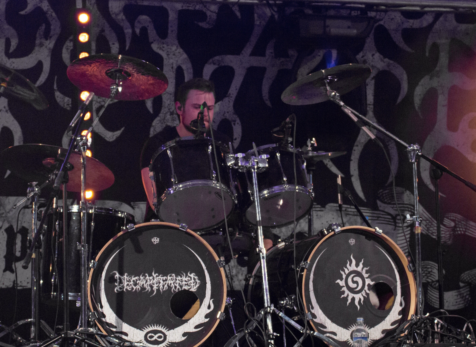 Decapitated's drummer Michał Łysejko.